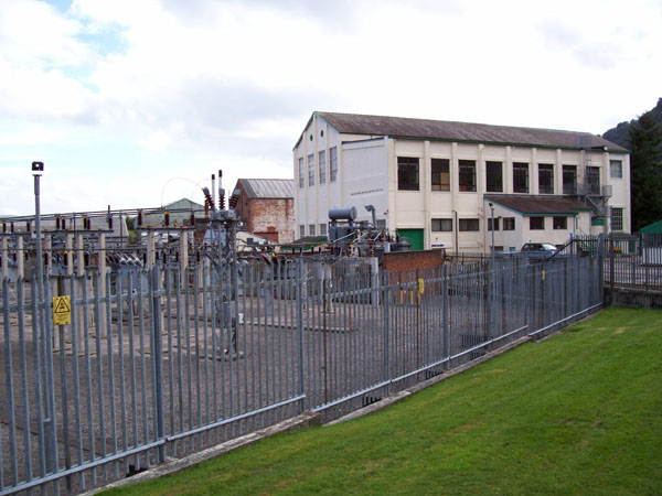 Dolgarrog Hydro-electric Power Station, near to Dolgarrog, Conwy County, Wales. Dating from 1907, and an integral part of the aluminium works SH7767 , the power station has a capacity of 32MW and now sells electricity on the spot market. It dates from an interesting period of industrial diversification when natural resources were the key to better conditions for local people. Water is gathered from high, hanging valleys to the west.